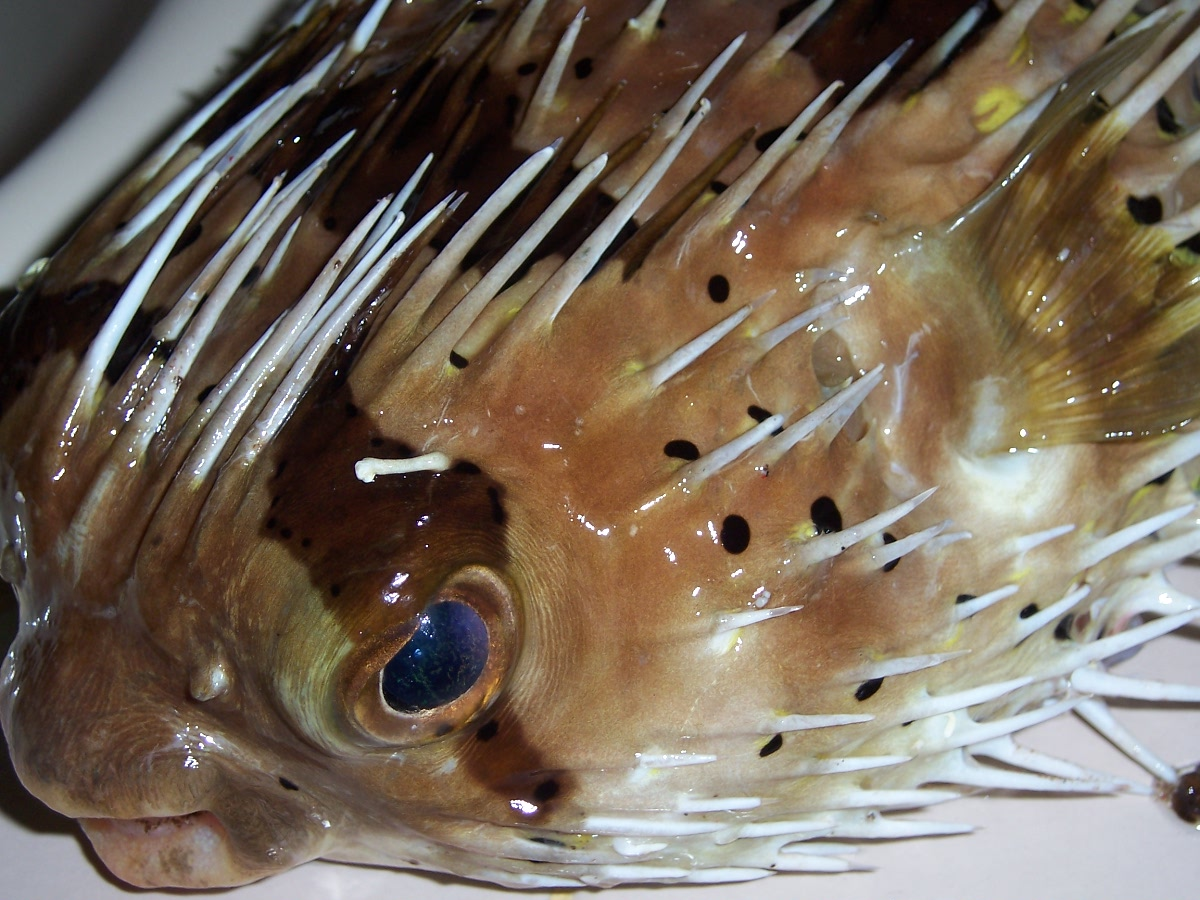 A colleague's catch during a fishing expedition in Camiguin. Natives told him that this fish would make a yummy meal if cooked the right way. If not, this could be potentially potent as it is also regarded as a poisonous fish.